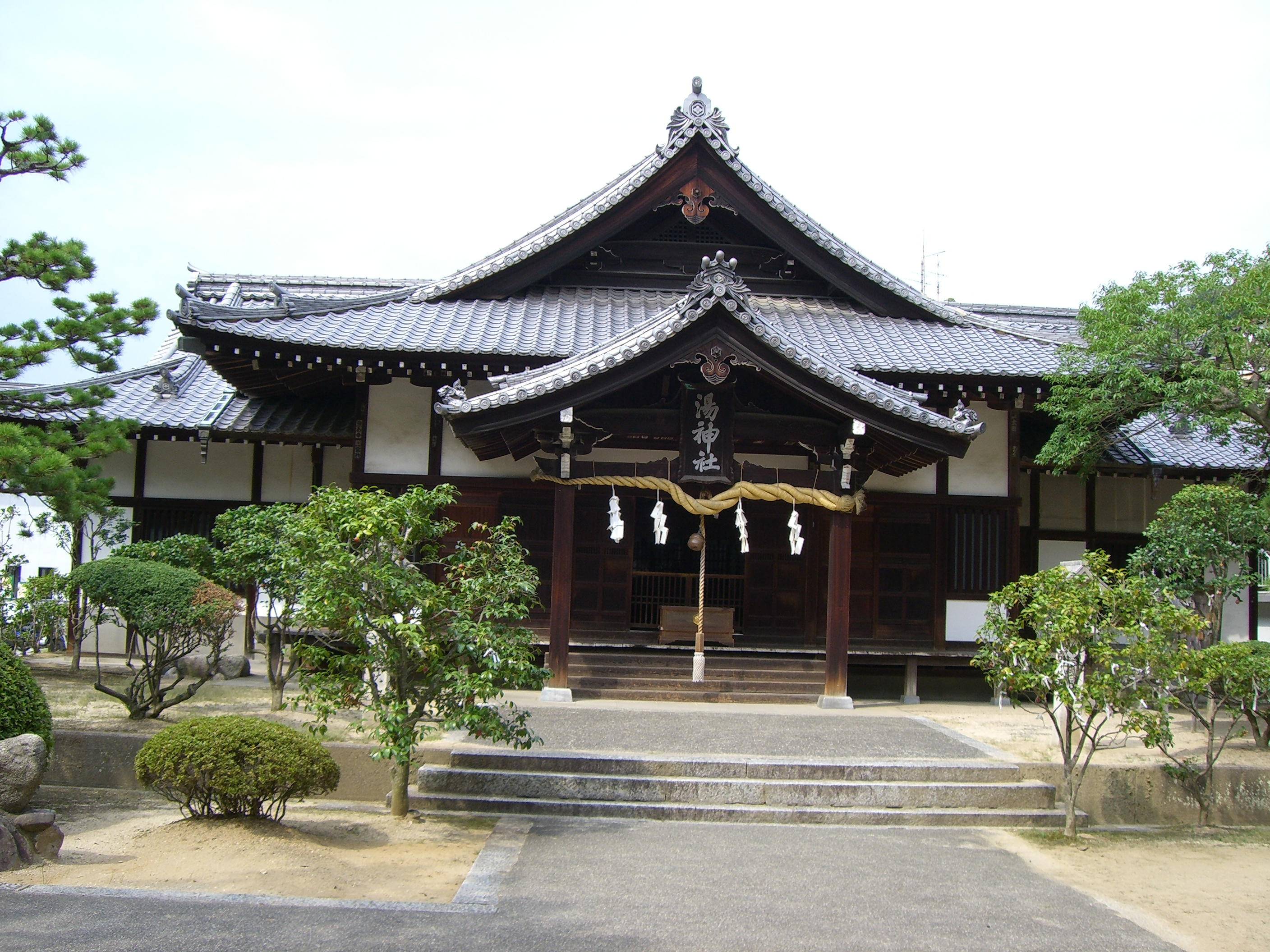 "Dogo Yu-Jinja(Shrine)"：Situated upon a small hill next to the Dogo-Onsen-Honkan (Hot Spring main building), this shrine houses the guardian deity of Dogo-Onsen. (Ehime,JAPAN).